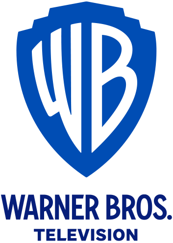 Logo of Warner Bros. Television since November 2019